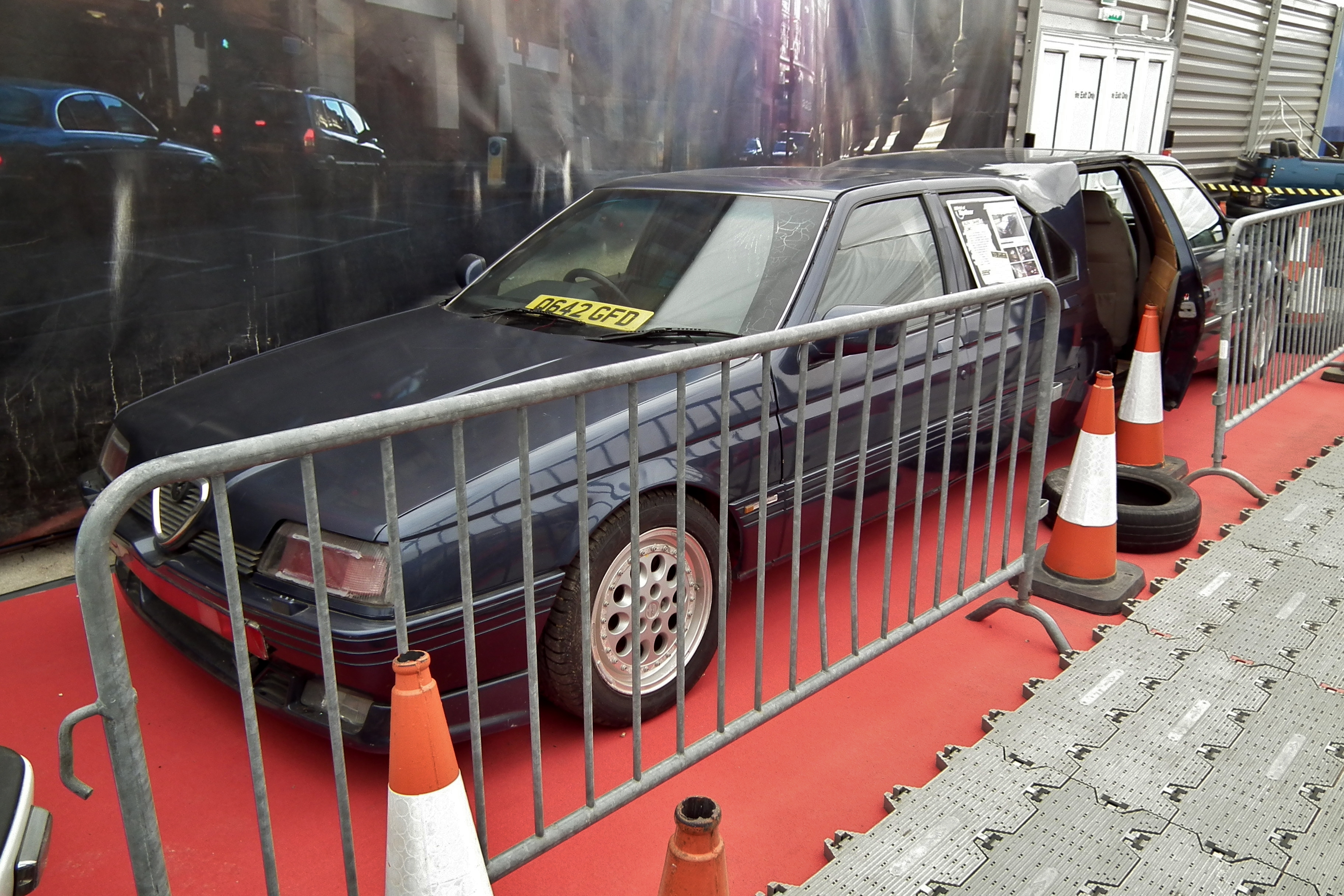 Alfa/Saab stretched limousine. Built by James May for the Top Gear stretched limousine challenge. Half 1996 Alfa Romeo 164, half 1995 SAAB 9000 CSE. Part of the World of Top Gear exhibition. Taken at the National Motor Museum in Beaulieu, Hampshire, England.